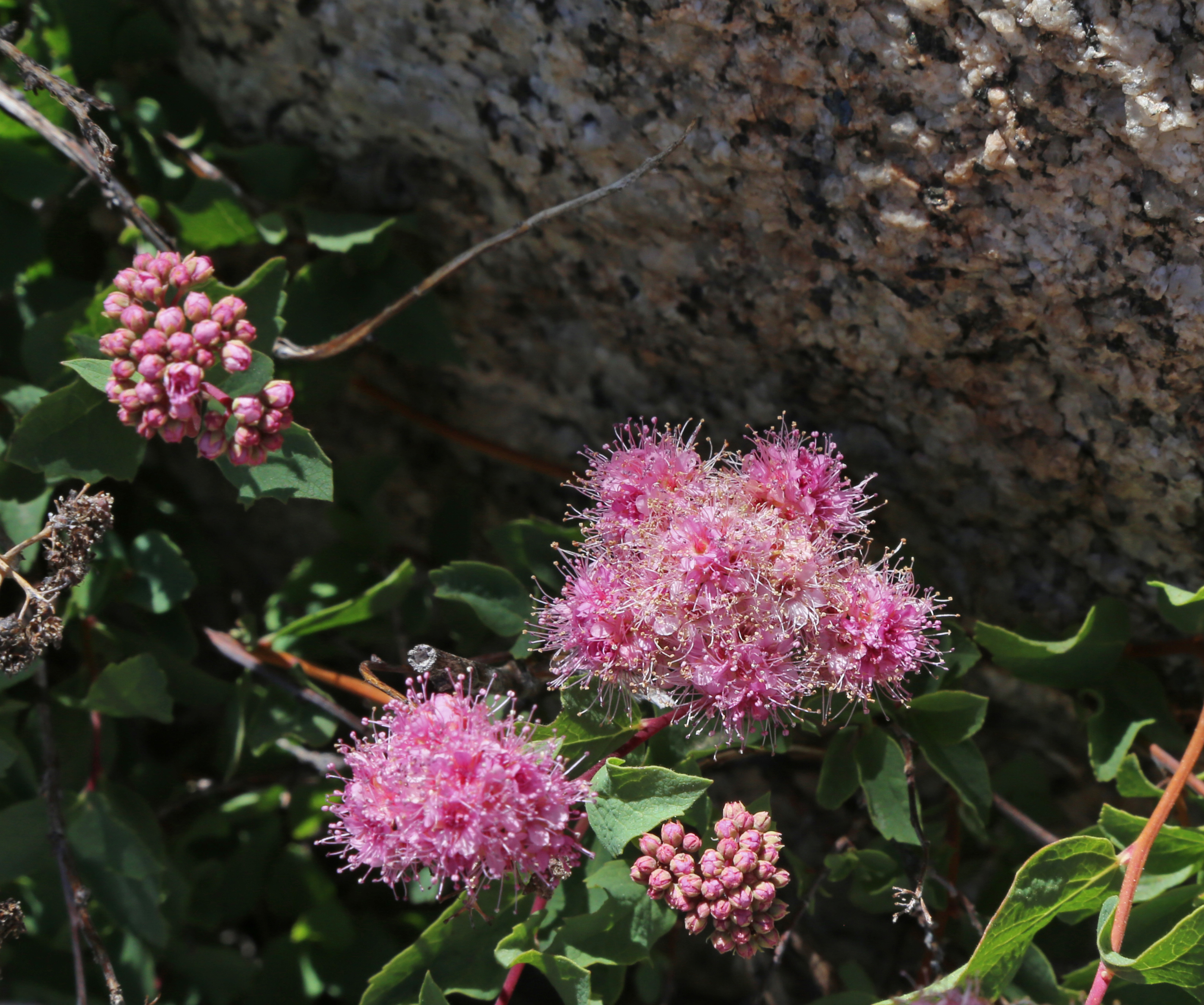 Mountain spiraea (Spiraea densiflora), closeup of flowers and buds. Along trail from Mosquito Flat to Ruby Lake, John Muir Wilderness, Sierra Nevada, USA.